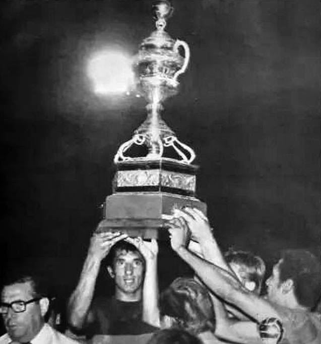 Captain Antonio Rattín and other Boca Juniors players raising the Mohammed V trophy, after beating Real Madrid 2-1, with both goals scored by Alfredo Rojas. Boca starting line-up was: Errea; Aire, Magdalena, Marzolini; Rattin, Orlando; Rully, A. Rojas, Menéndez, Silveira, González.